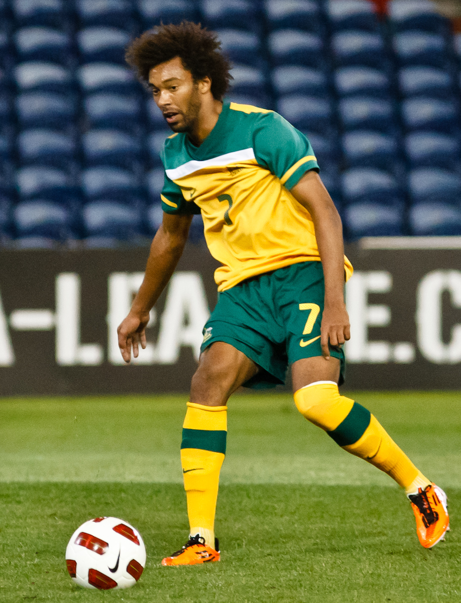 Isaka Cernak playing football for the Olyroos against Yemen in a qualifying game for the 2012 Olympics.